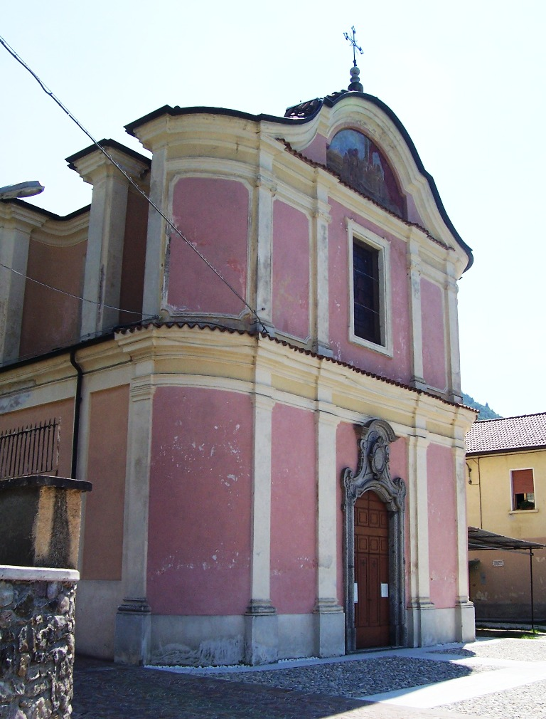 Church of Nativity of St. John the Baptist. Solato, Pian Camuno, Val Camonica